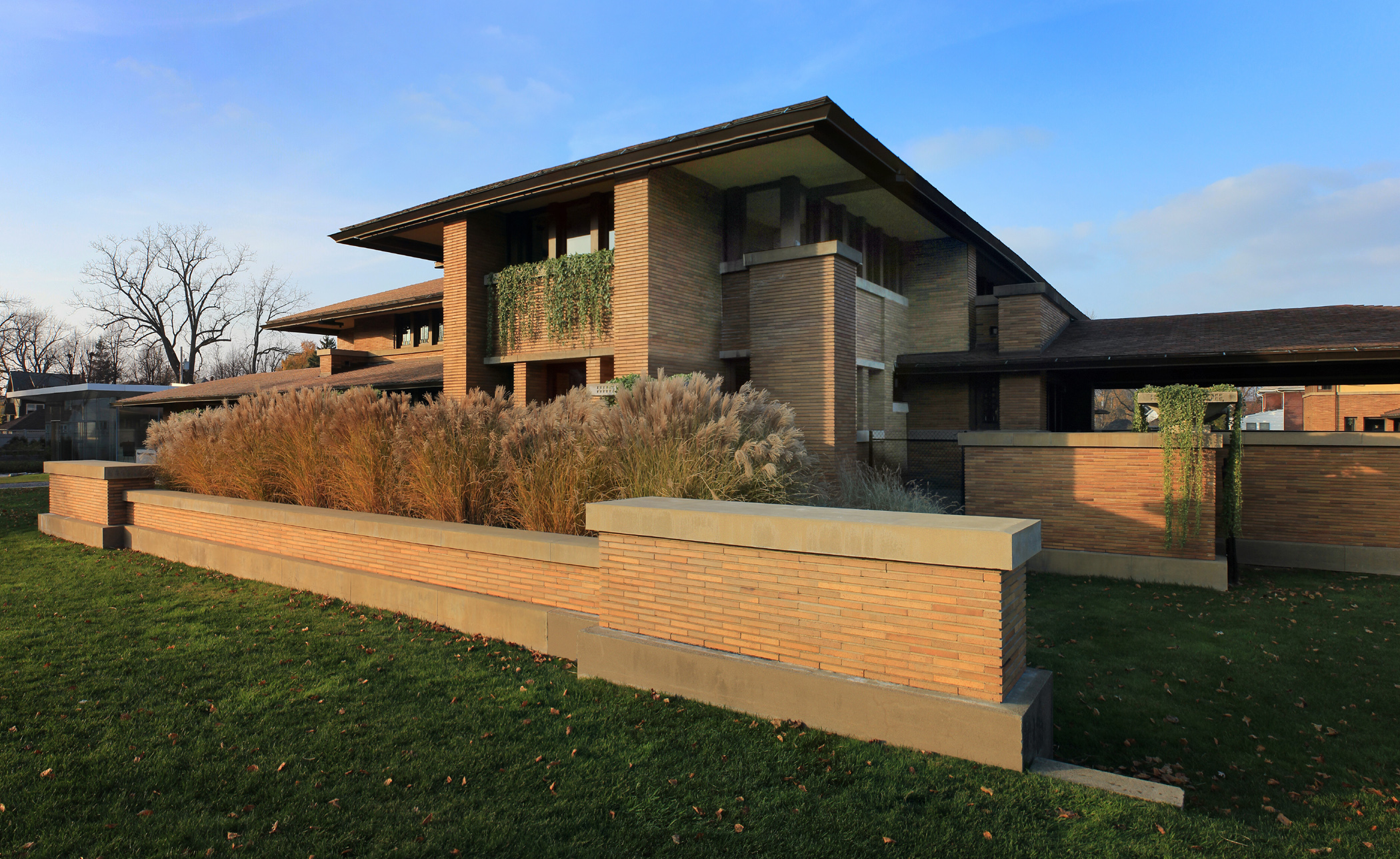 Darwin Martin House by Philip G Coman